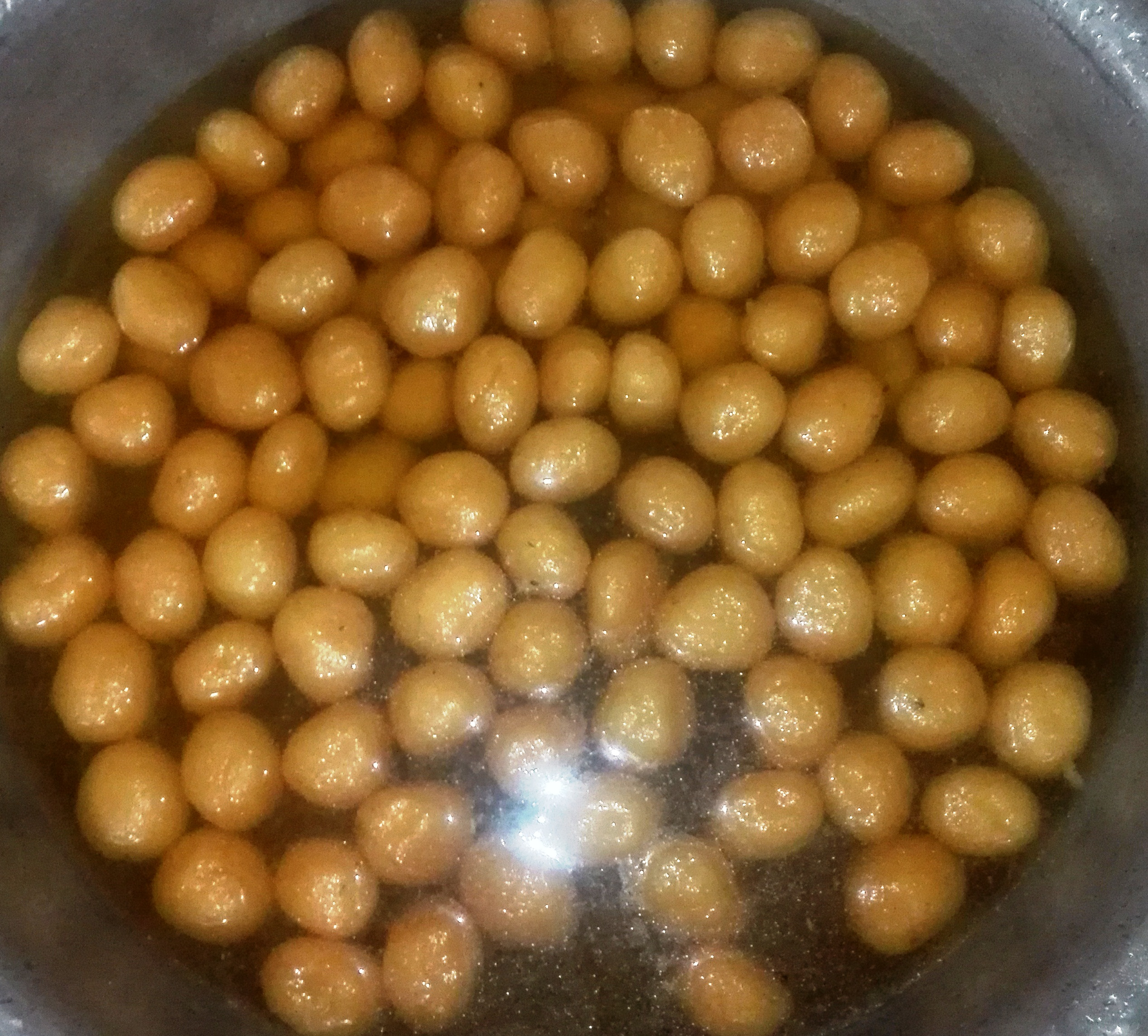 Rosogollas